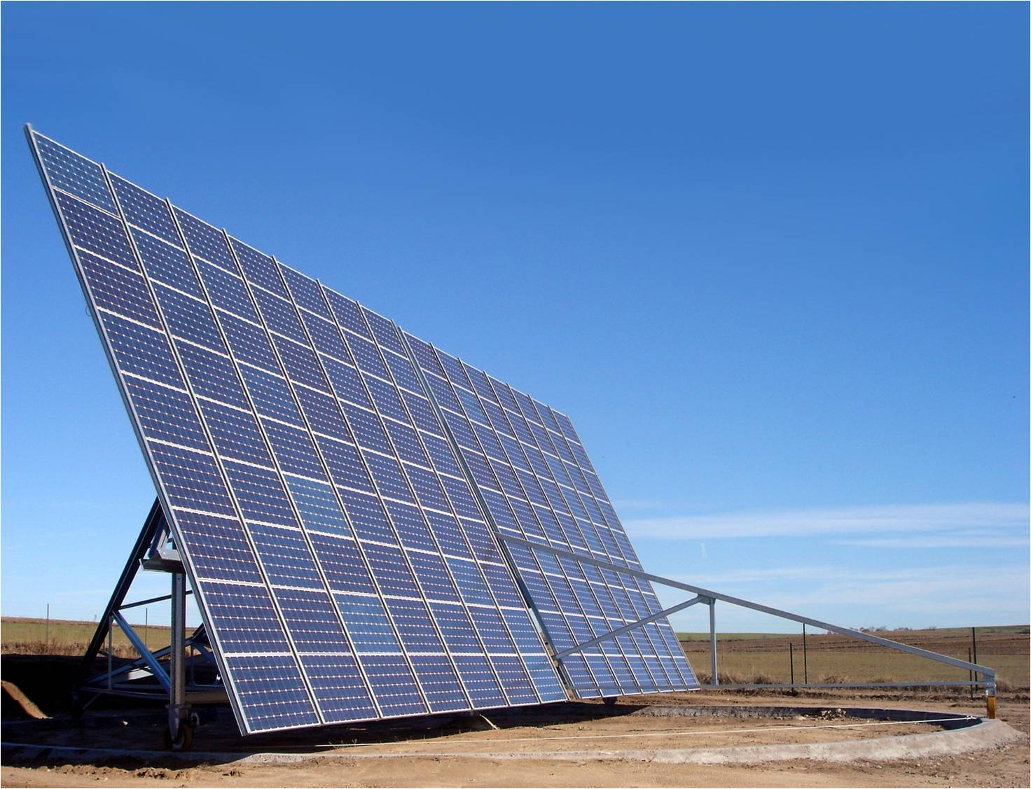 Seguidor solar a dos ejes